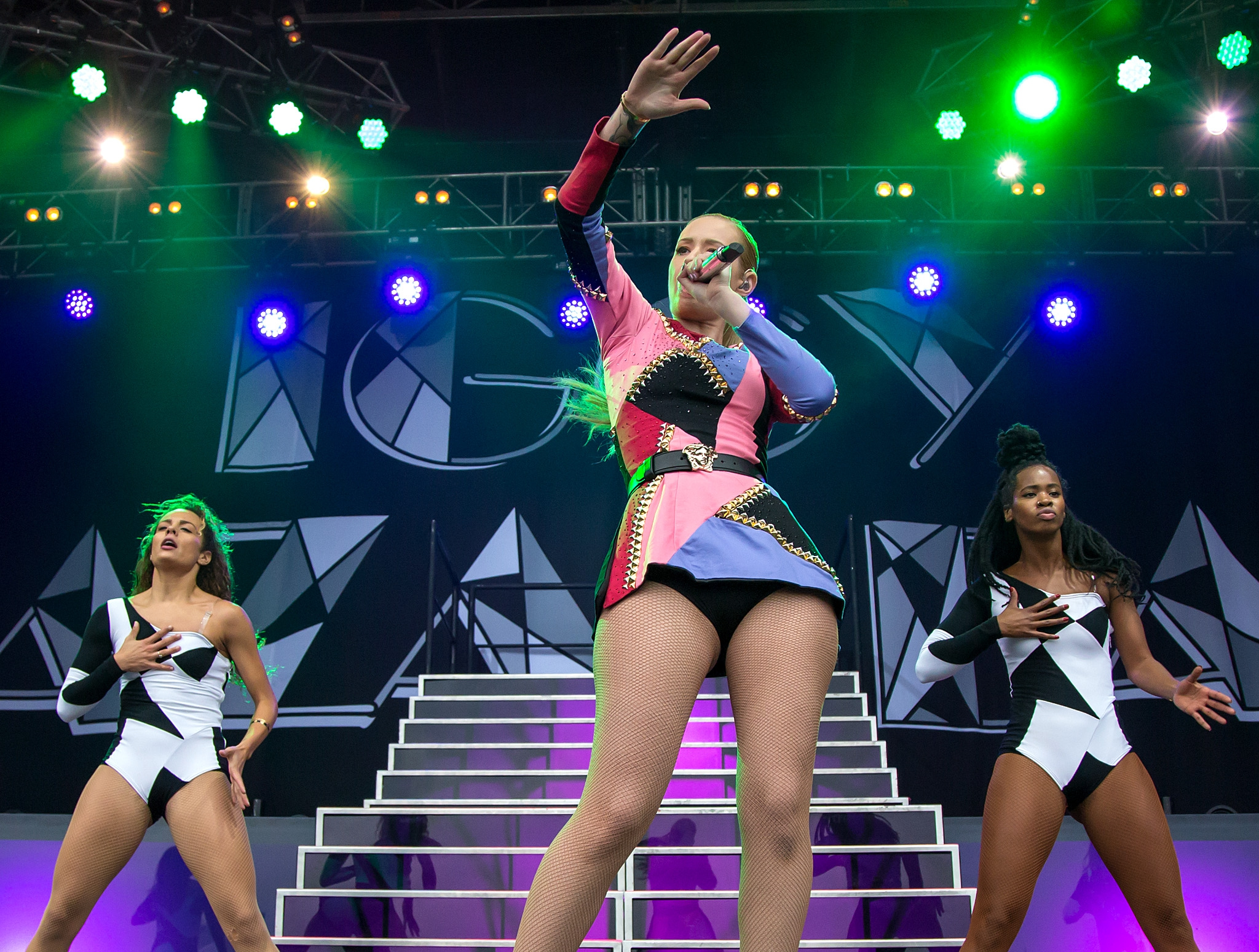 Iggy Azalea at the 2014 ACL Music Festival